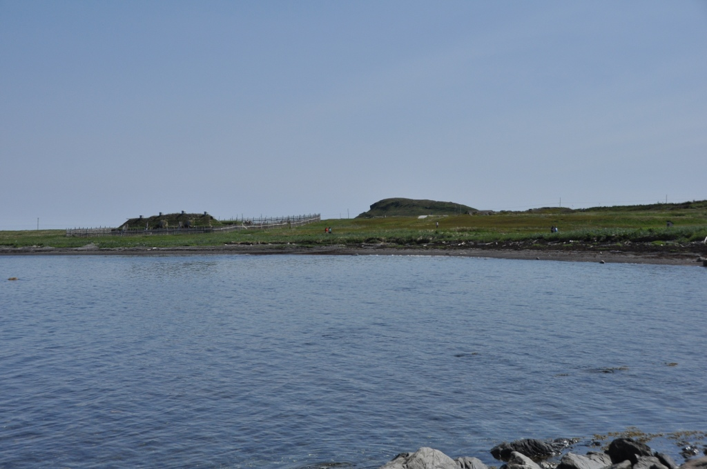 View of L'Anse aux Meadows, Newfoundland. The archeological site is on the right, the reconstructed Norse village is on the left.